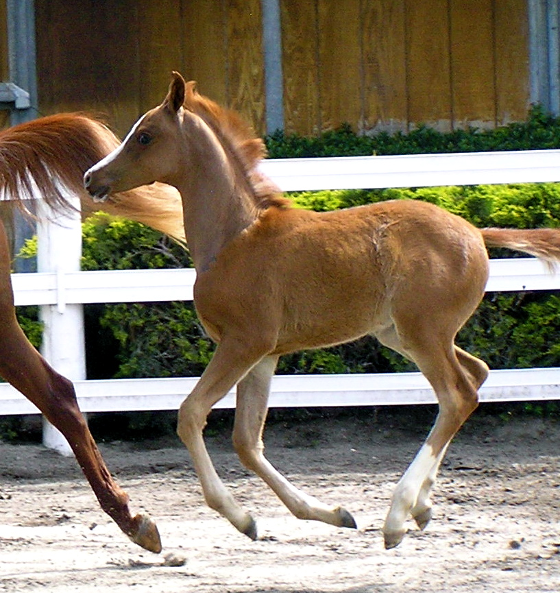 A purebred Arabian chestnut foal